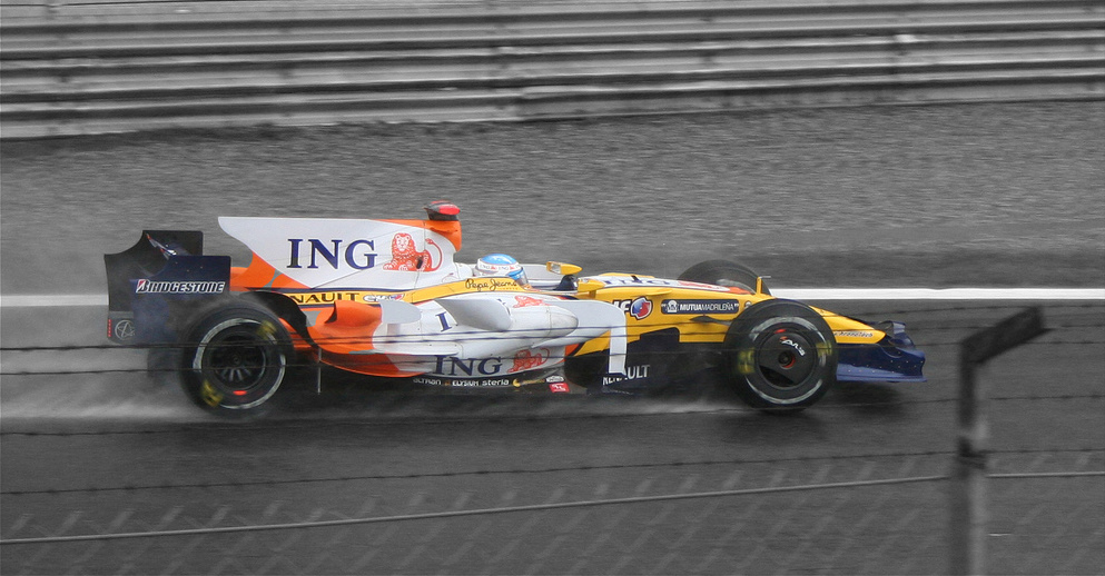 Fernando Alonso at 2008 Italian Grand Prix